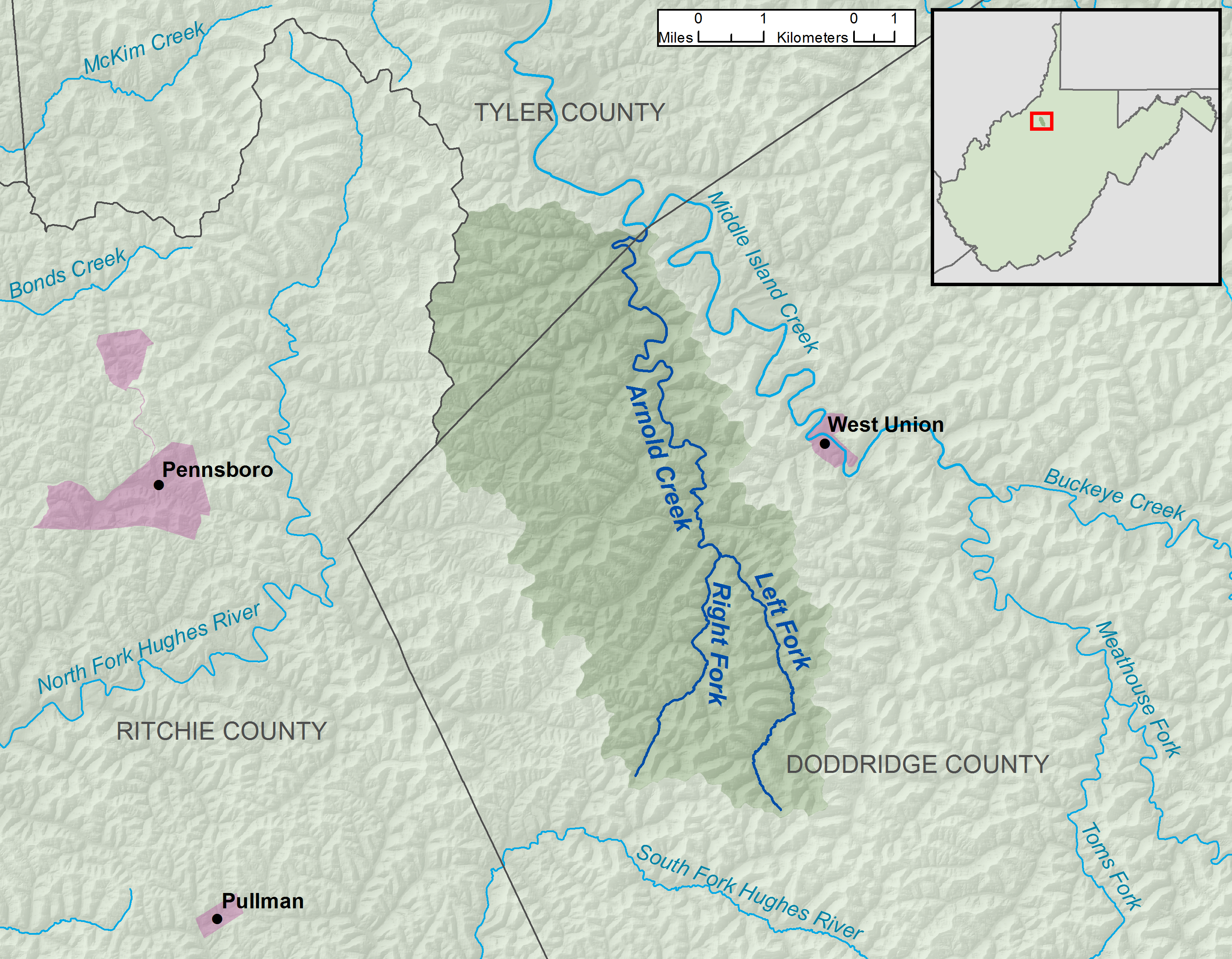 A map of Arnold Creek and its watershed (USGS HUC-12 code 050302010405), in Doddridge and Tyler counties in West Virginia.